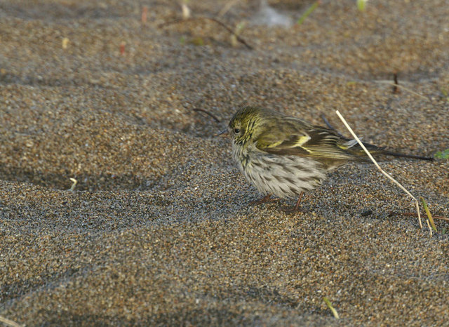 Out of place, Skaw Migrants can be found anywhere in Shetland - this Siskin (Cardeuelis spinus) would have been reared in extensive pine forest and probably spent the winter feeding on alder or birch cones, but here it rummages for seeds at the top of Skaw beach.